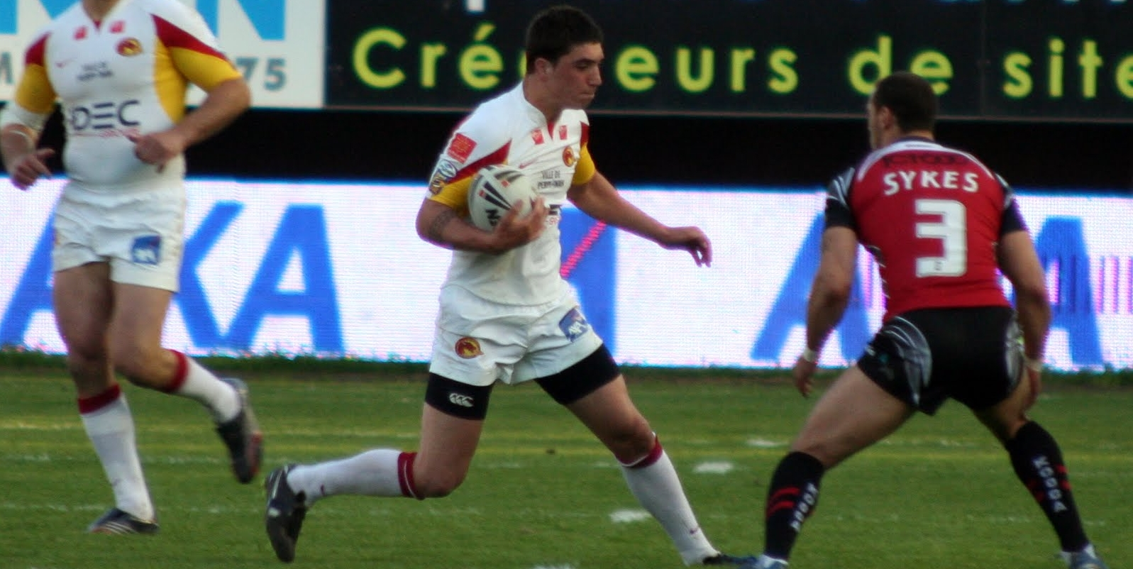 Brett Delaney